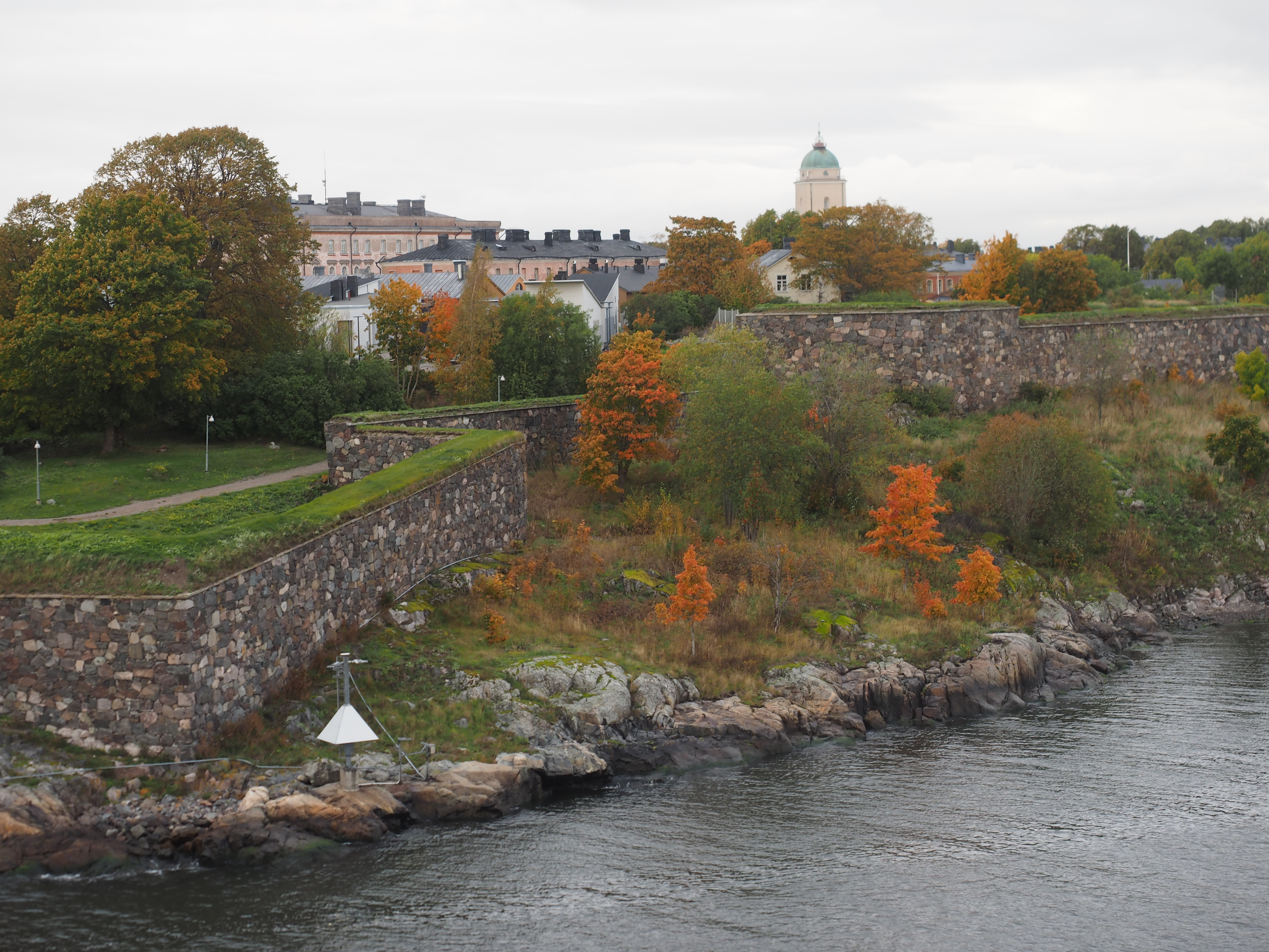 The islands of Suomenlinna in Helsinki, Finland, seen from the outer deck of Viking Mariella.